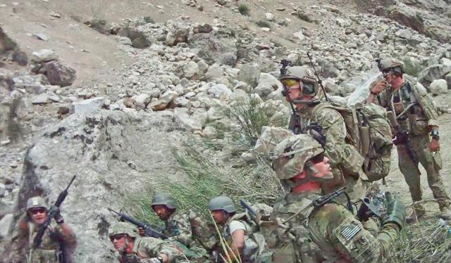 Captain Garrett Gingrich, JTAC Delaney, TACP McCaffrey, TACP Epperson, LEP Chris Thomas and Afghan soliders during fire fight.